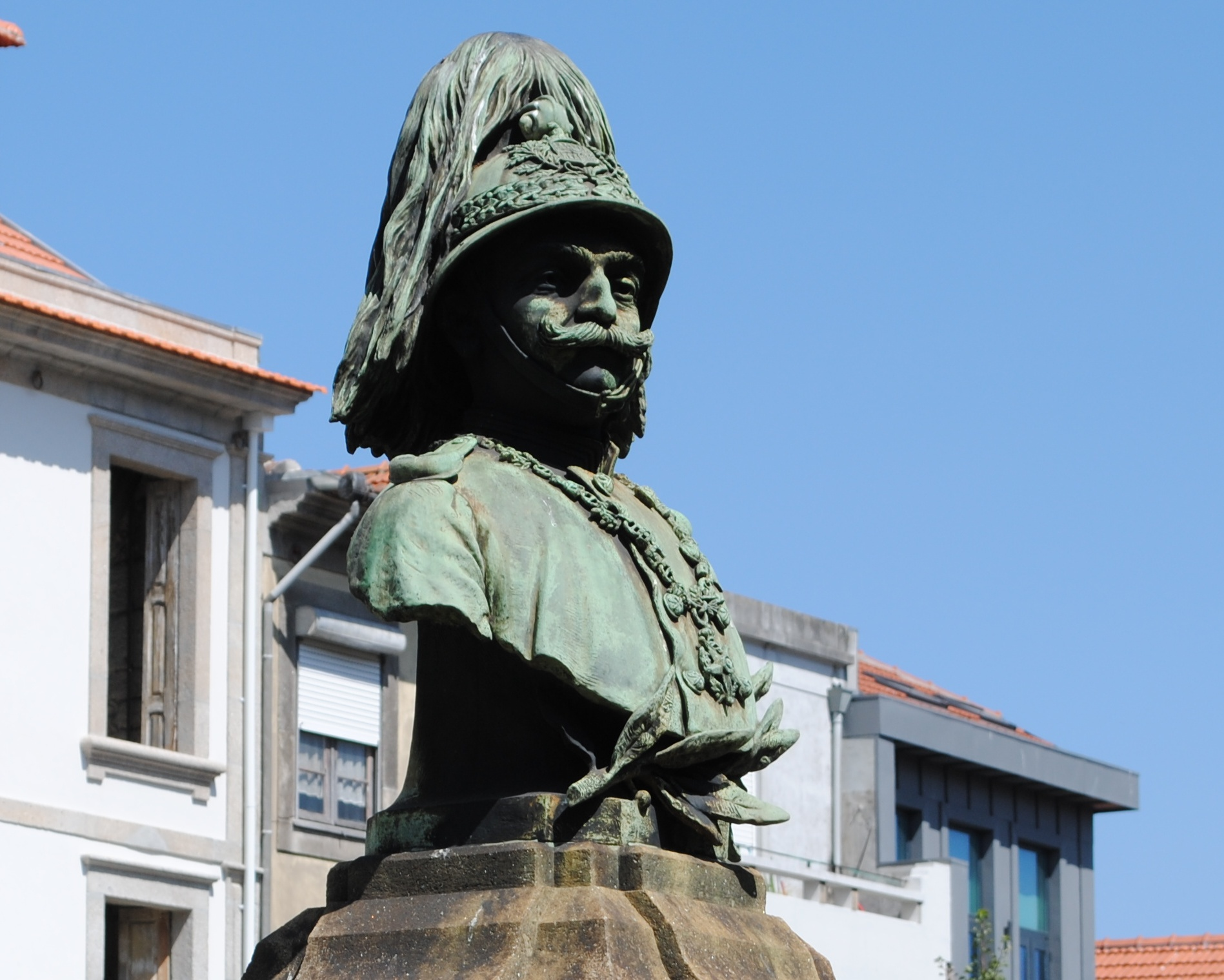 See title and categories.